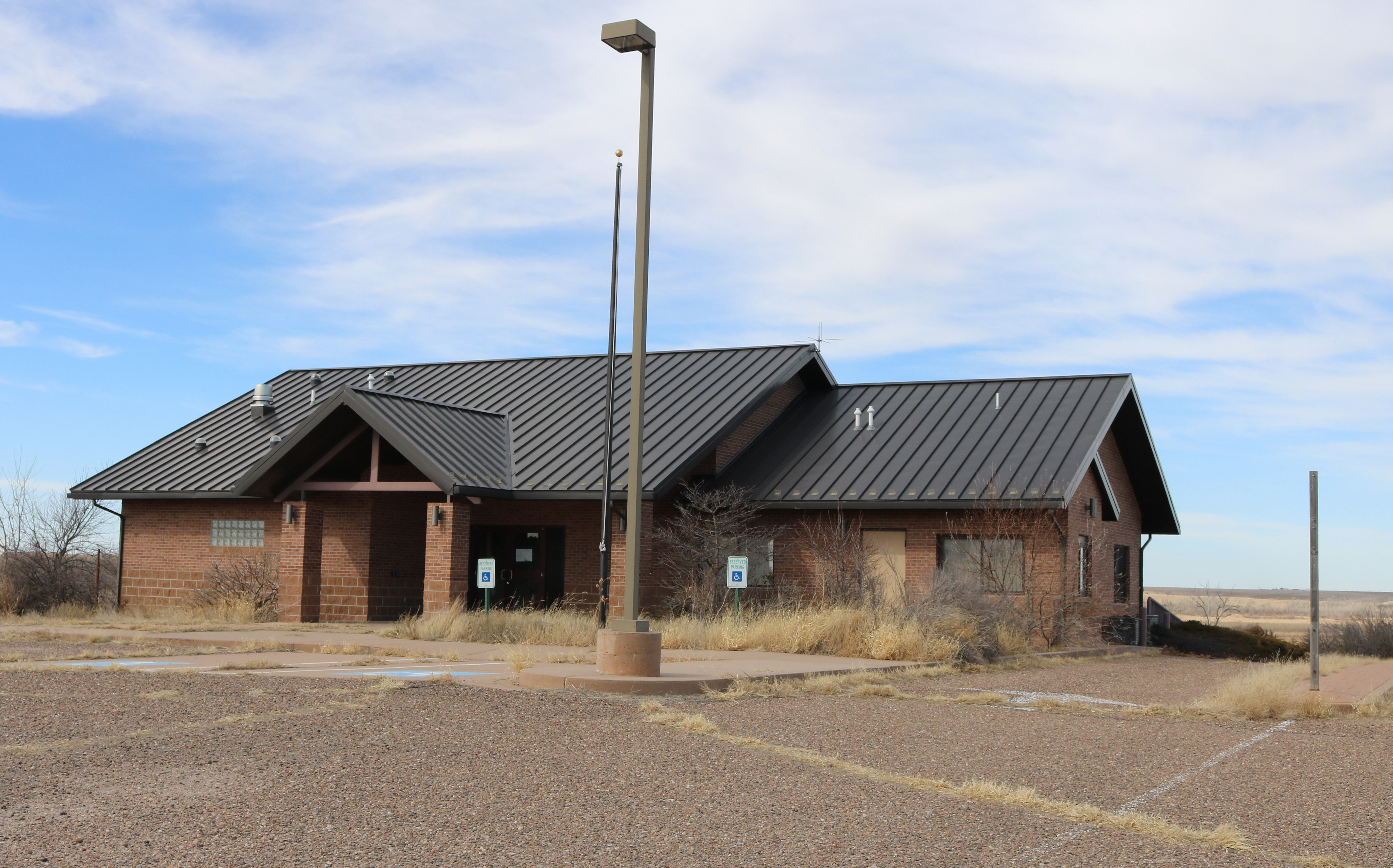 The abandoned park headquarters building for the now-closed Bonny Lake State Park. The building is located in southern Yuma County, Colorado, hear Hale.